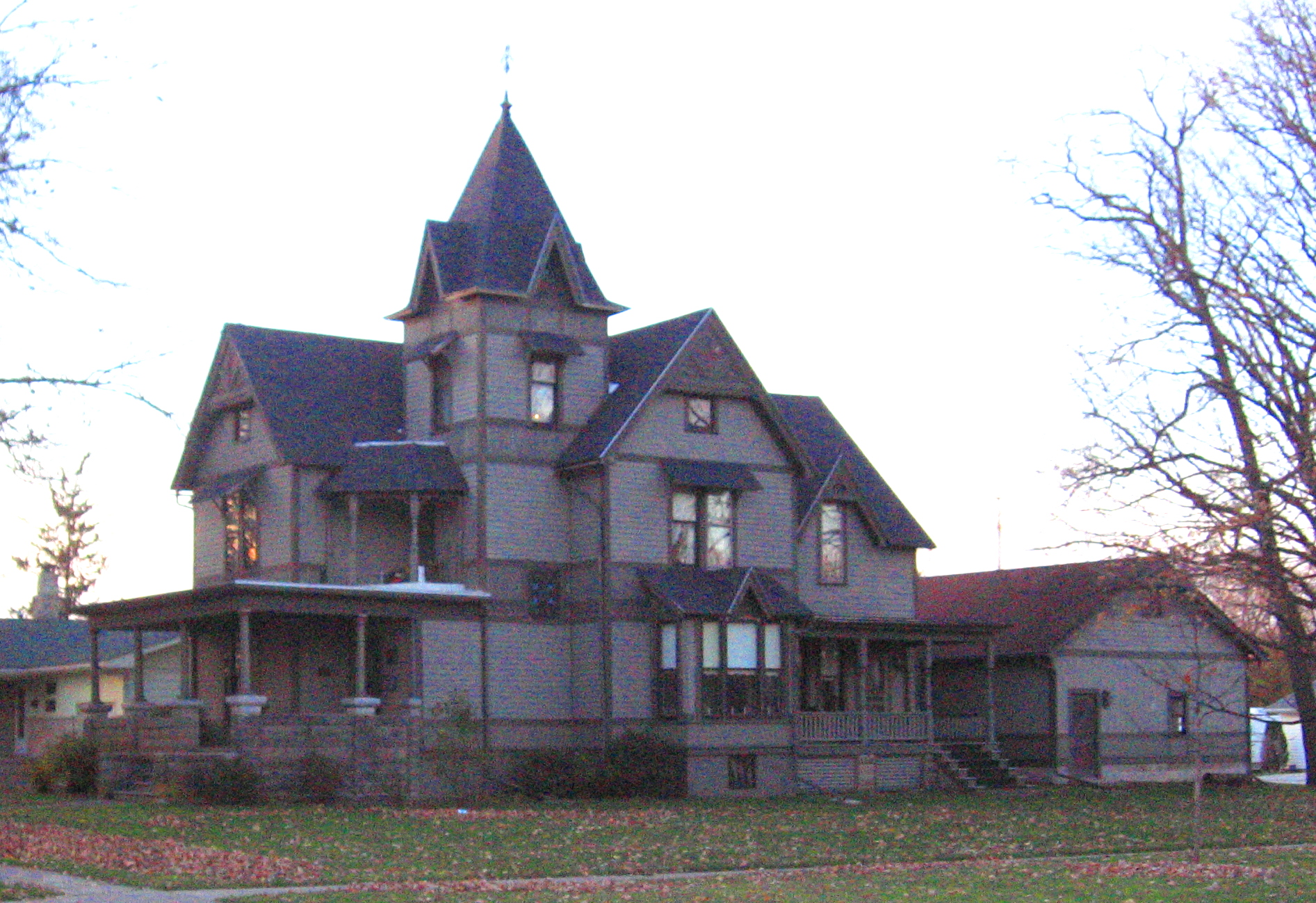 The so-called Dunnan-Hampton house, in Paxton, Illinois, listed on the National Register of Historic Places.